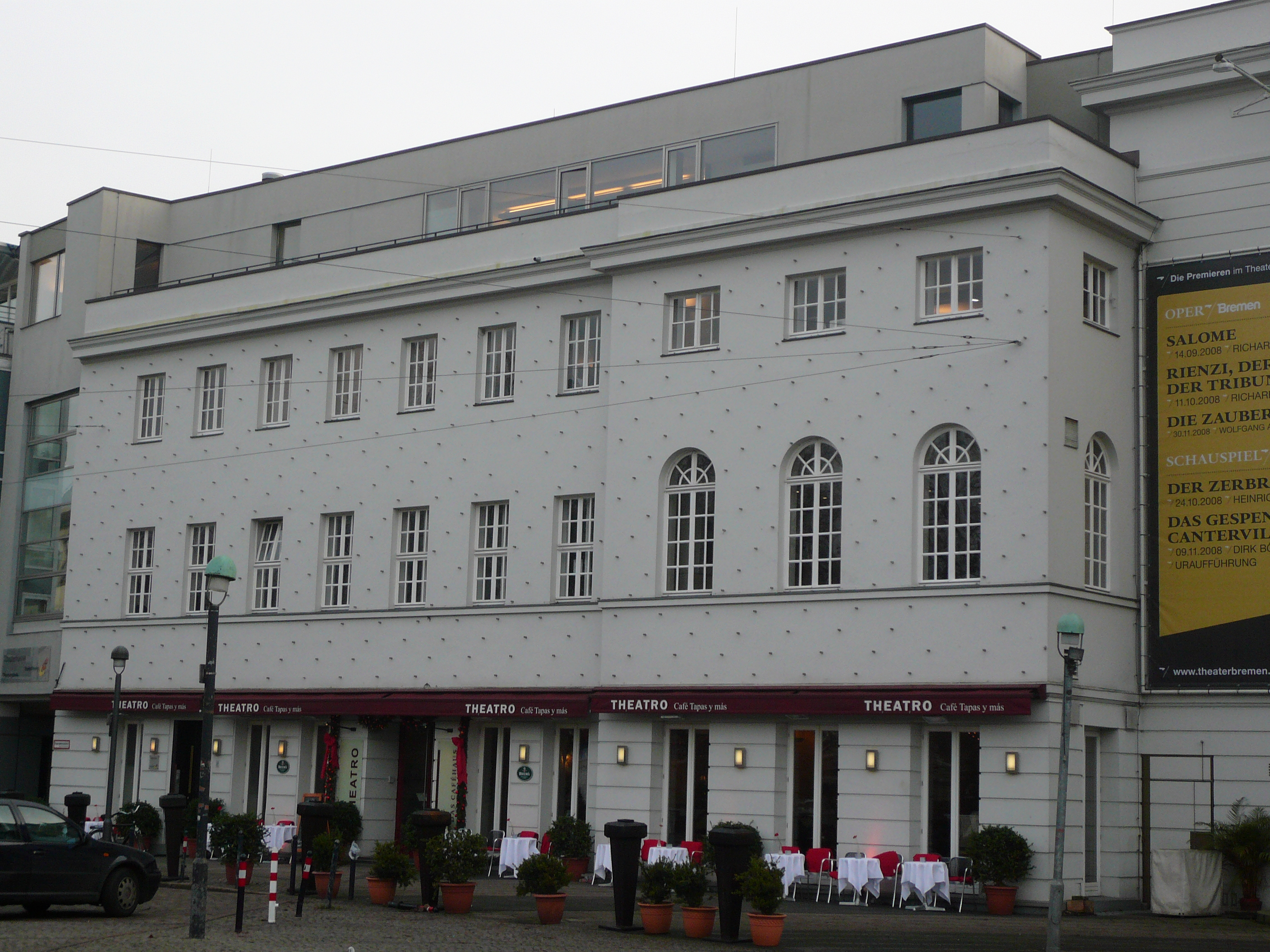 The office building of the Theater Bremen